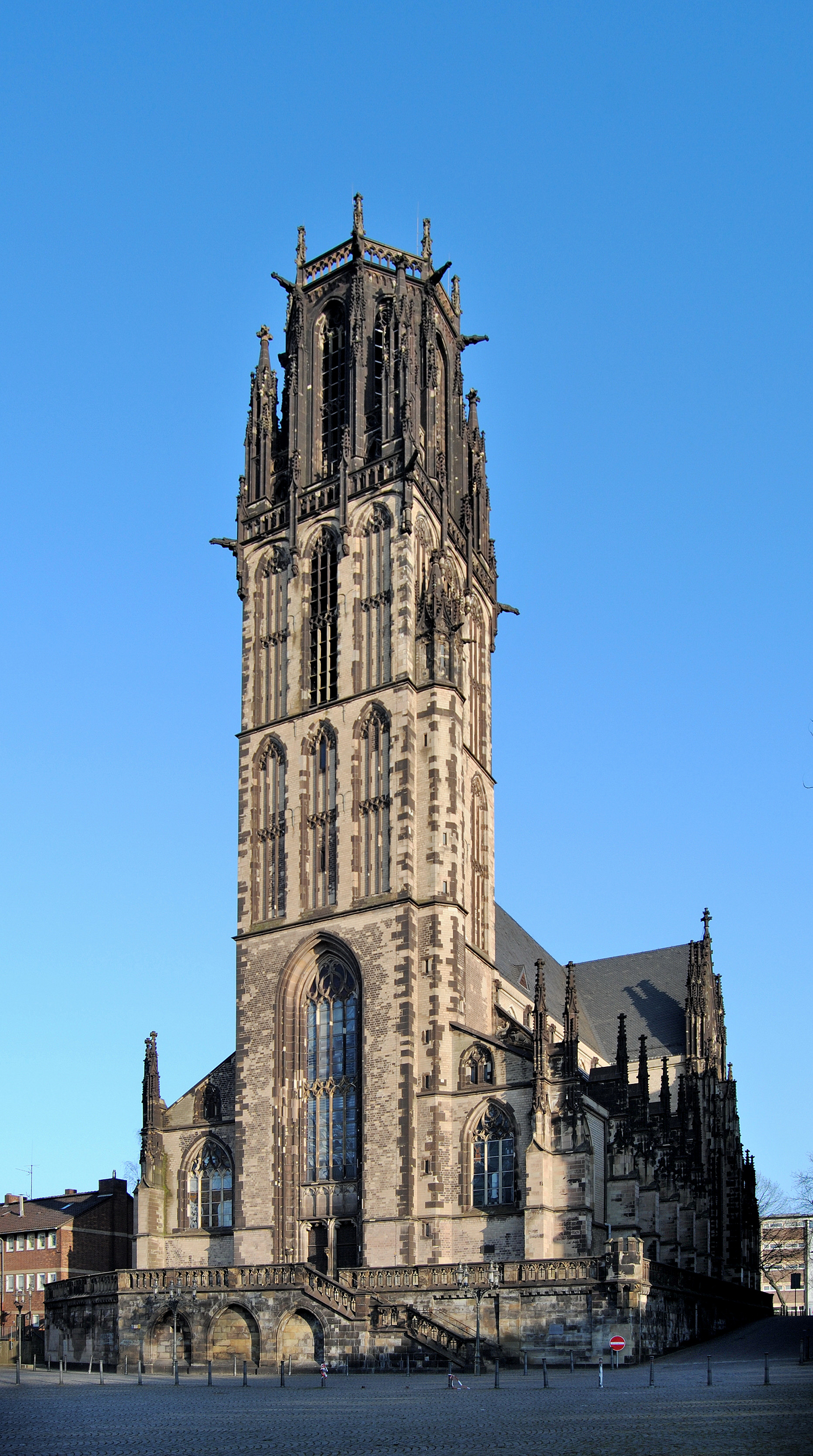 Duisburg (North Rhine-Westphalia, Germany) – Salvatorian Church This image shows a heritage building in Germany, located in the North Rhine-Westphalian city Duisburg (no. 63). This photograph was taken with a Nikon D3000